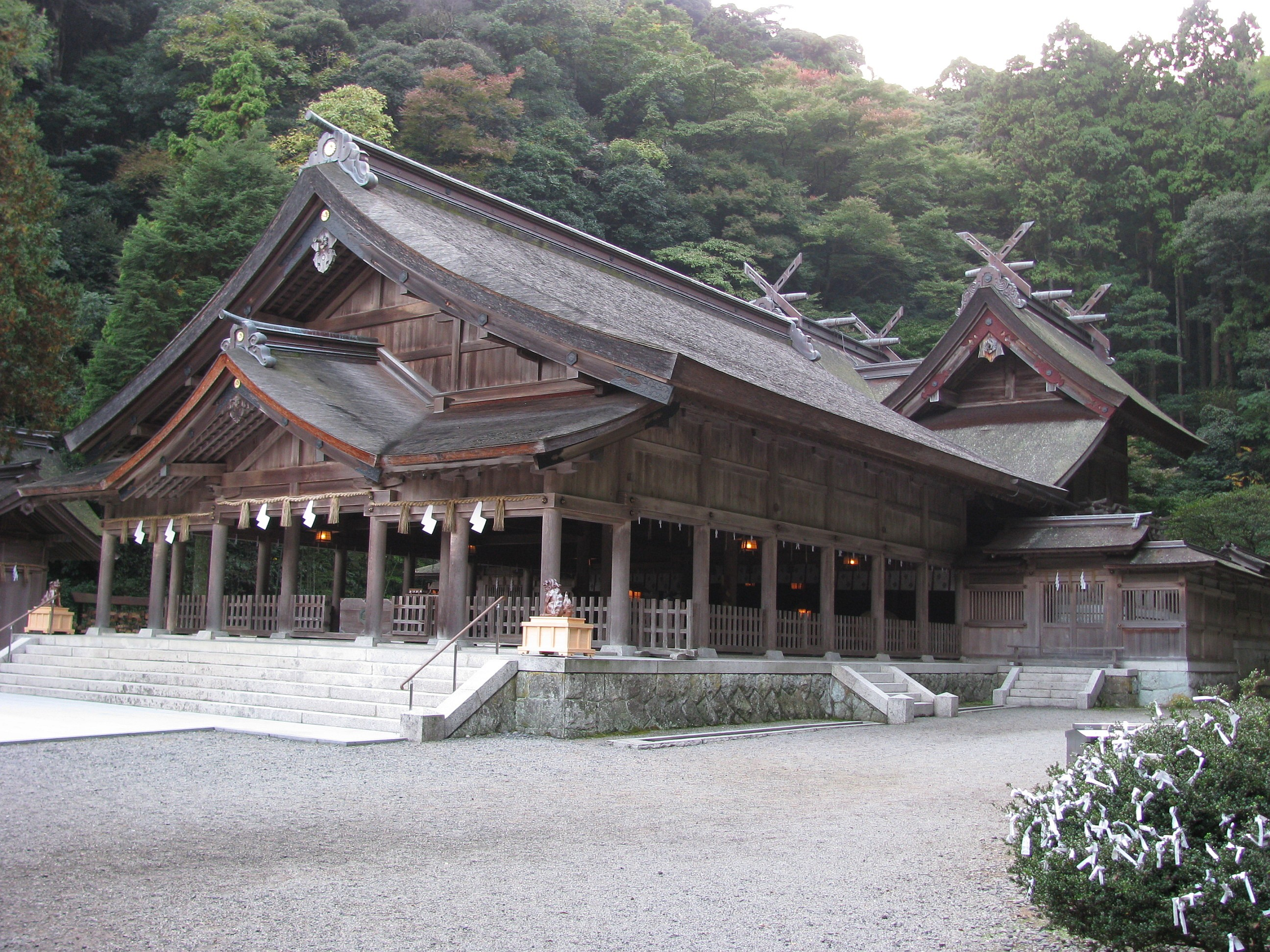 The Miho-jinja. This place is Matsue, Shimane Prefecture, Japan.